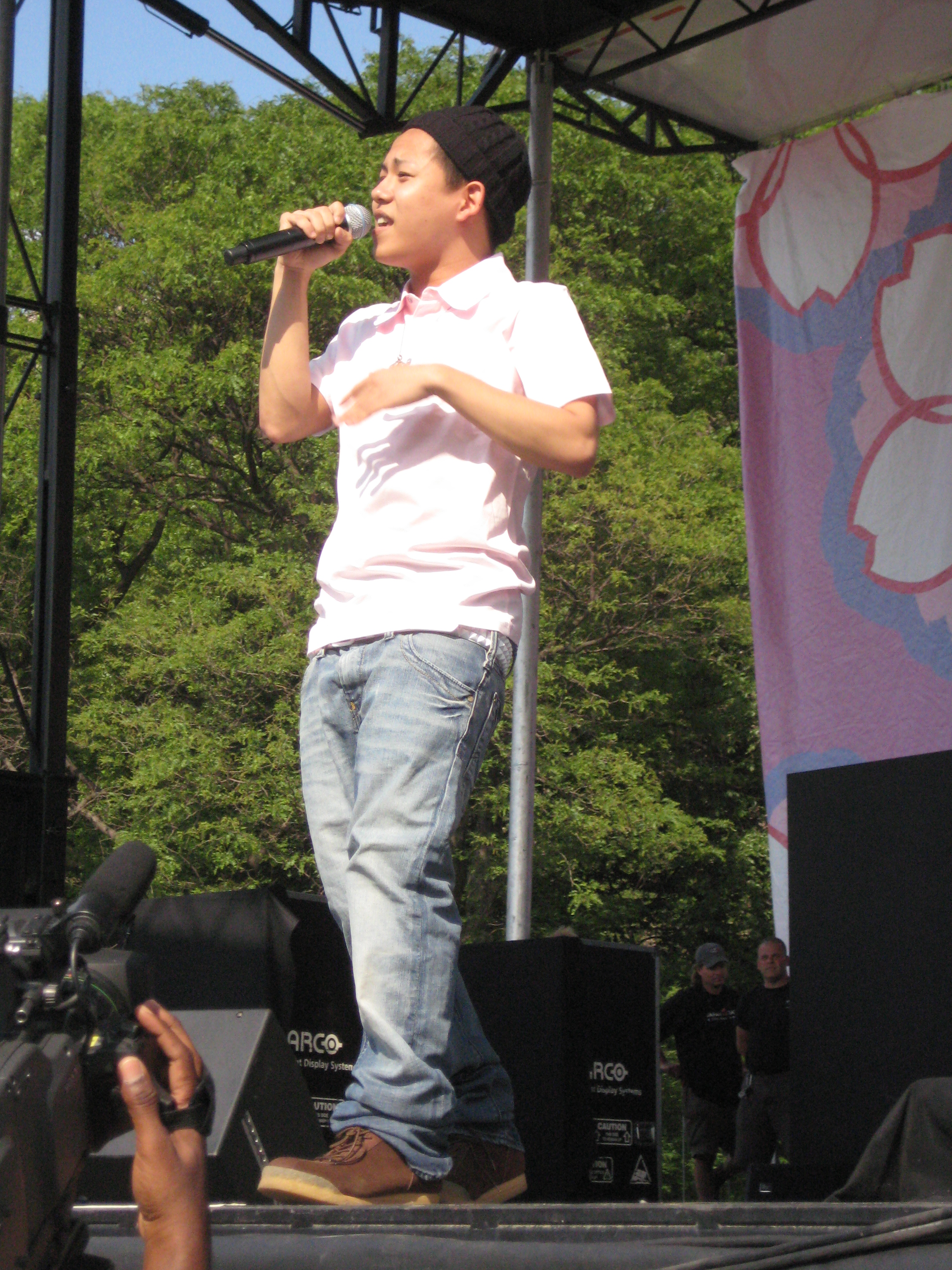 Shōta Shimizu live at Japan Day in Central Park, New York City.